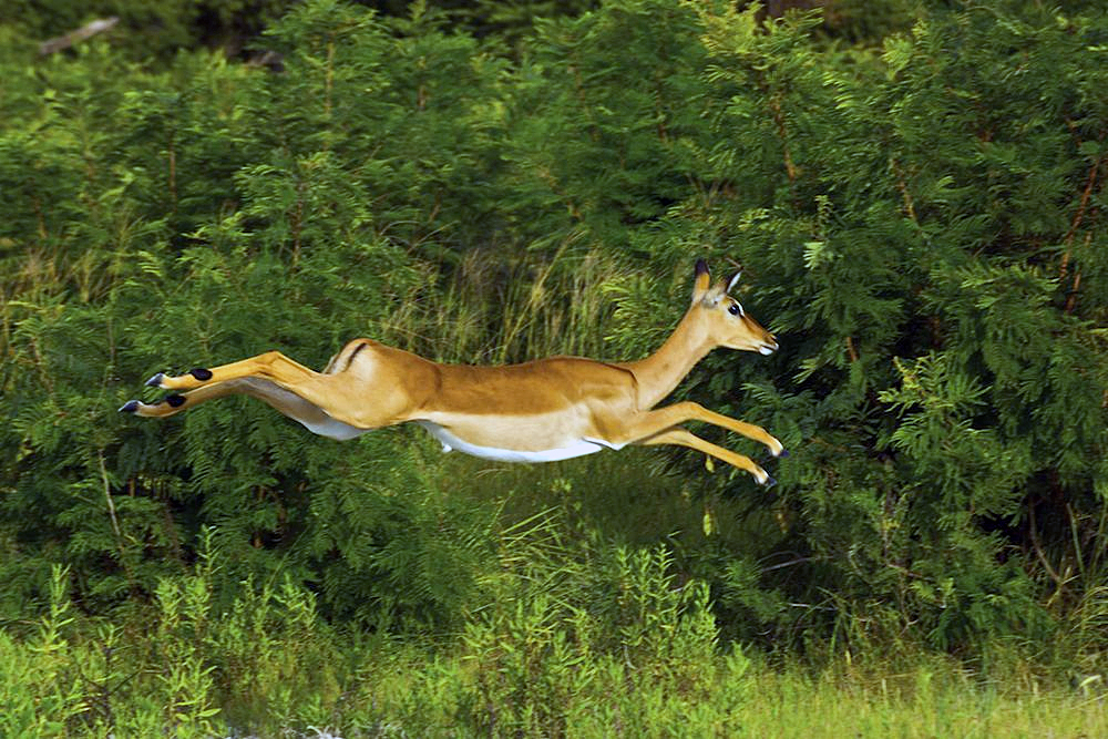 Impala jumping